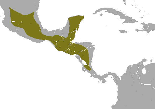 Southern Spotted Skunk (Spilogale angustifrons) range, with national borders added